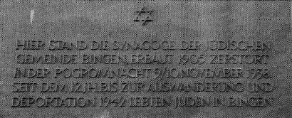 Commemorative plate of the synagogue of Bingen, destroyed by the nazis in 1938